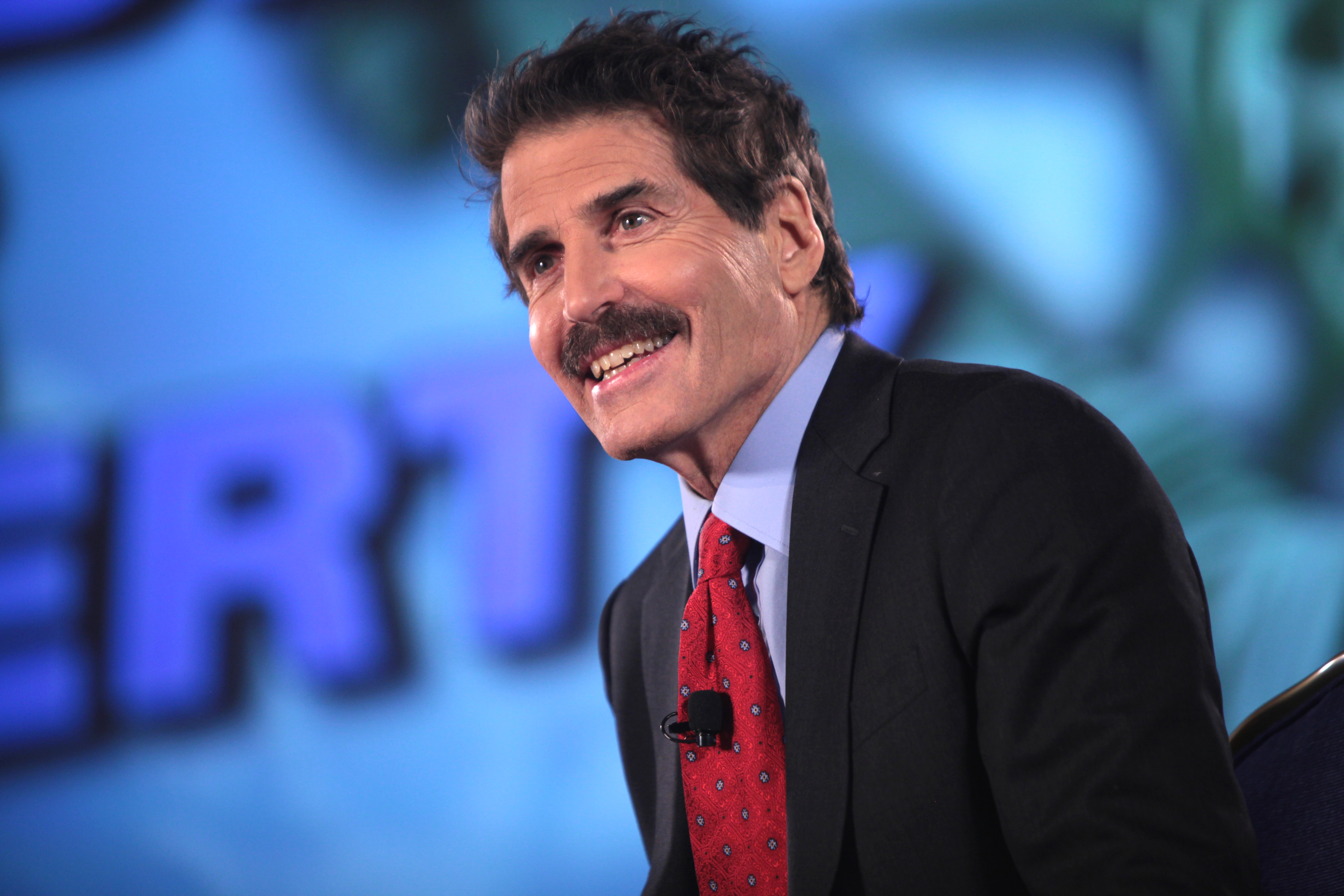 John Stossel speaking at an event in Washington, D.C.